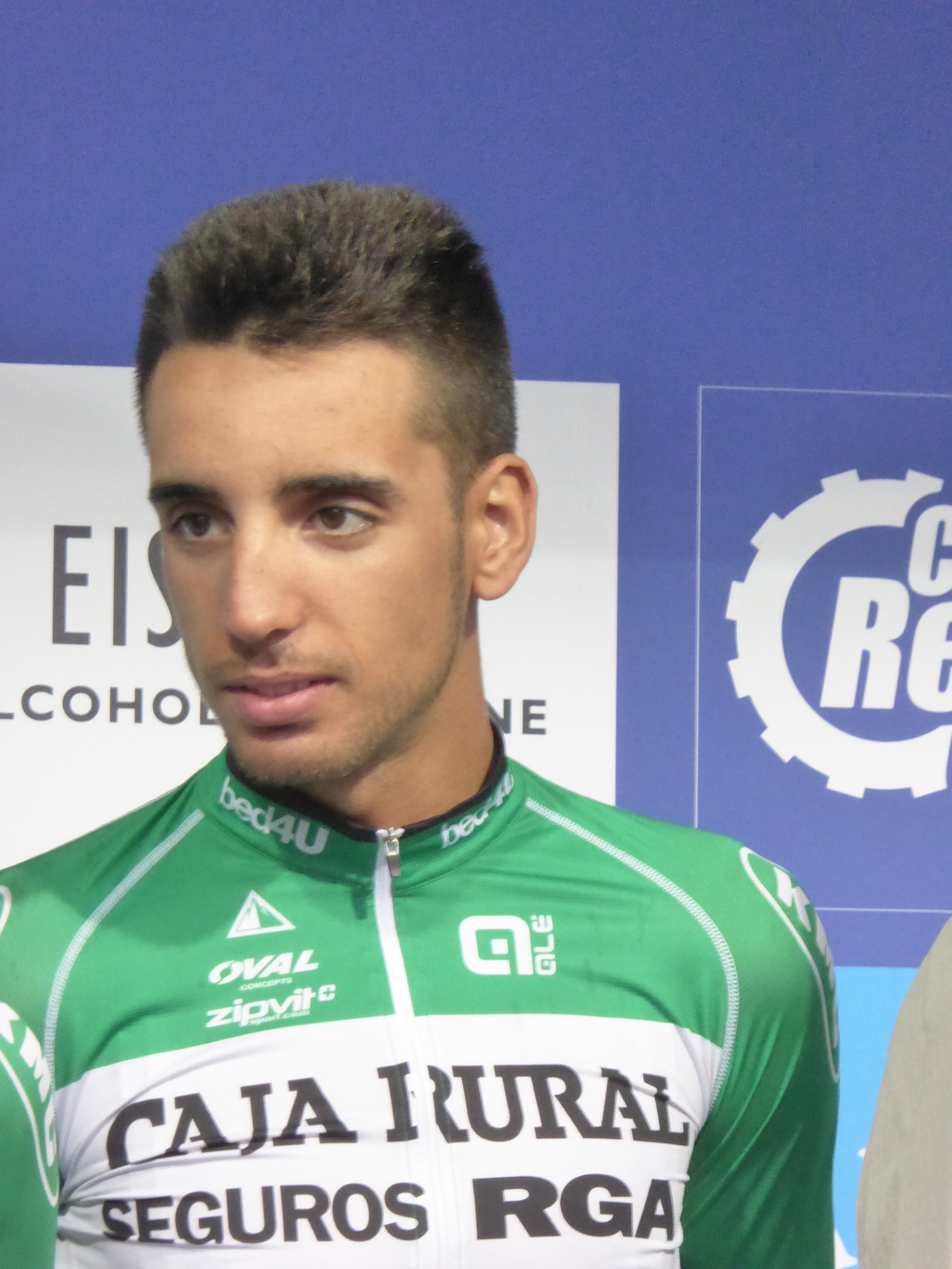 Héctor Sáez (Caja Rural-Seguros RGA), pictured at the 2016 Tour of Britain team presentation in Glasgow on 3 September 2016.